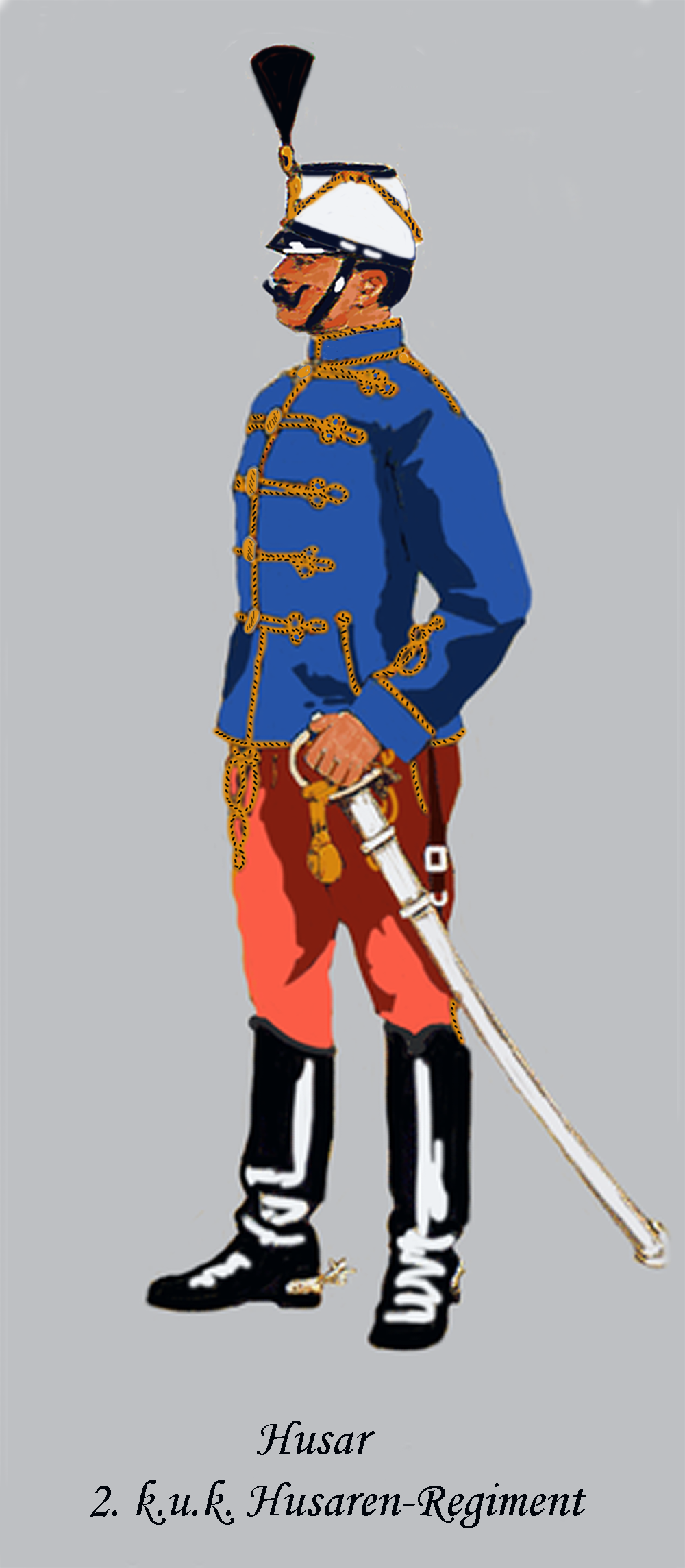 Enlisted man of the 2nd Austria-Hungarian Hussars-Regiment